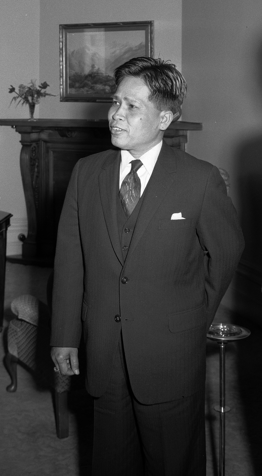 Brigadier Aung Shwe, Burmese Ambassador, meeting Mayor Frank Kitts in Wellington NZ, 13 July 1961